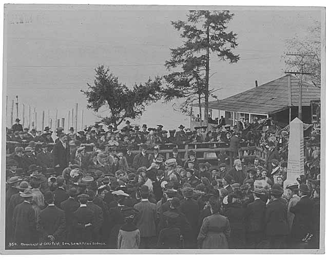 Caption on image: Monument at Alki Point. Sen. Sam H. Pile's address. Peiser. 11/13/05. 350 . Peiser 350 Subjects (LCTGM): Dedications--Washington (State)--Seattle; Monuments & memorials--Washington (State)--Seattle; Crowds--Washington (State)--Seattle